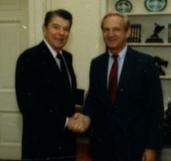 Ronald Reagan and Robert L. Pugh in Oval Office